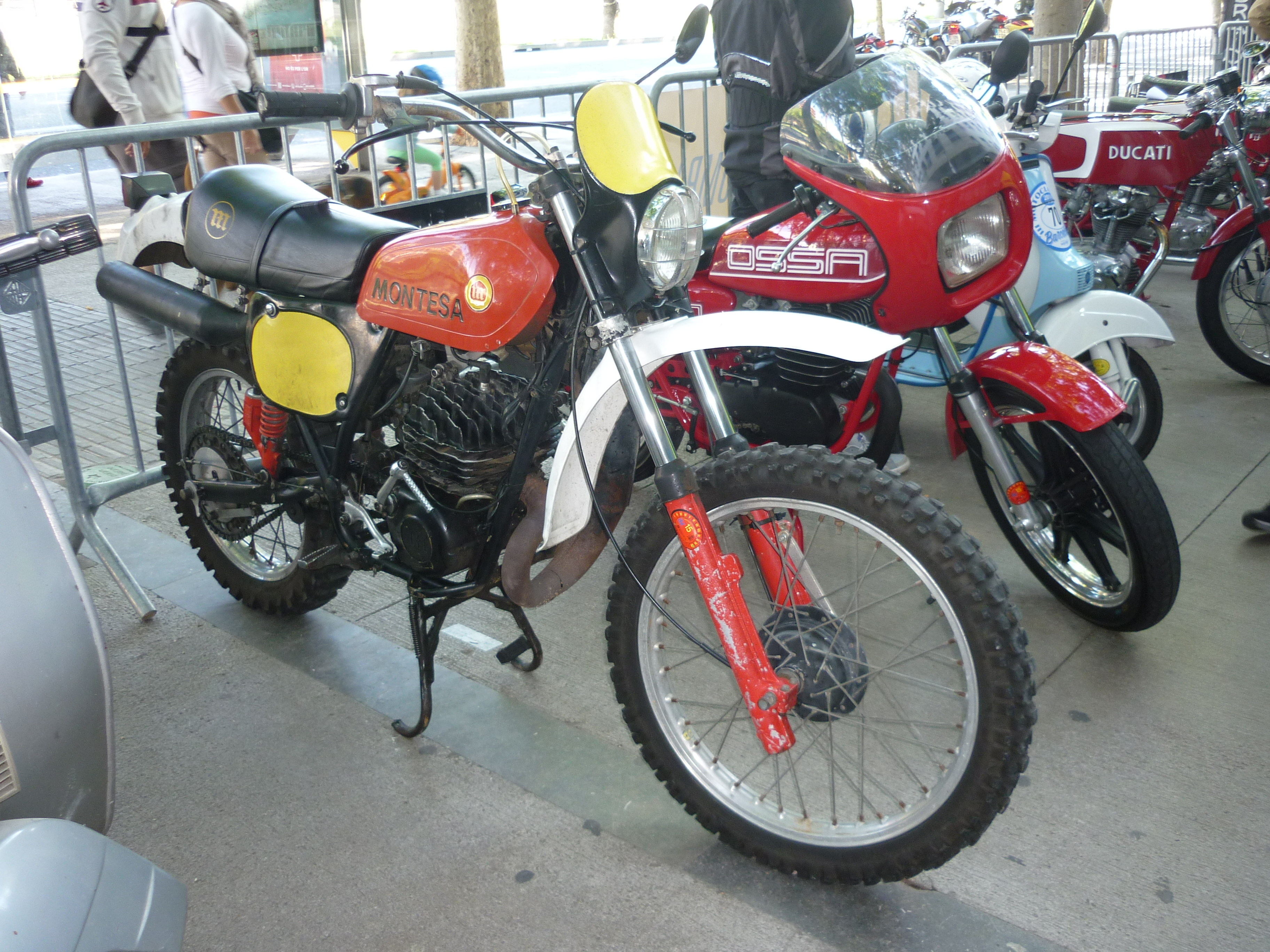 The first from left: Montesa Enduro 360 H6, 1978